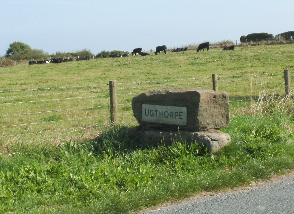 Sign posted at the entry to Ugthorpe, Yorkshire, UK